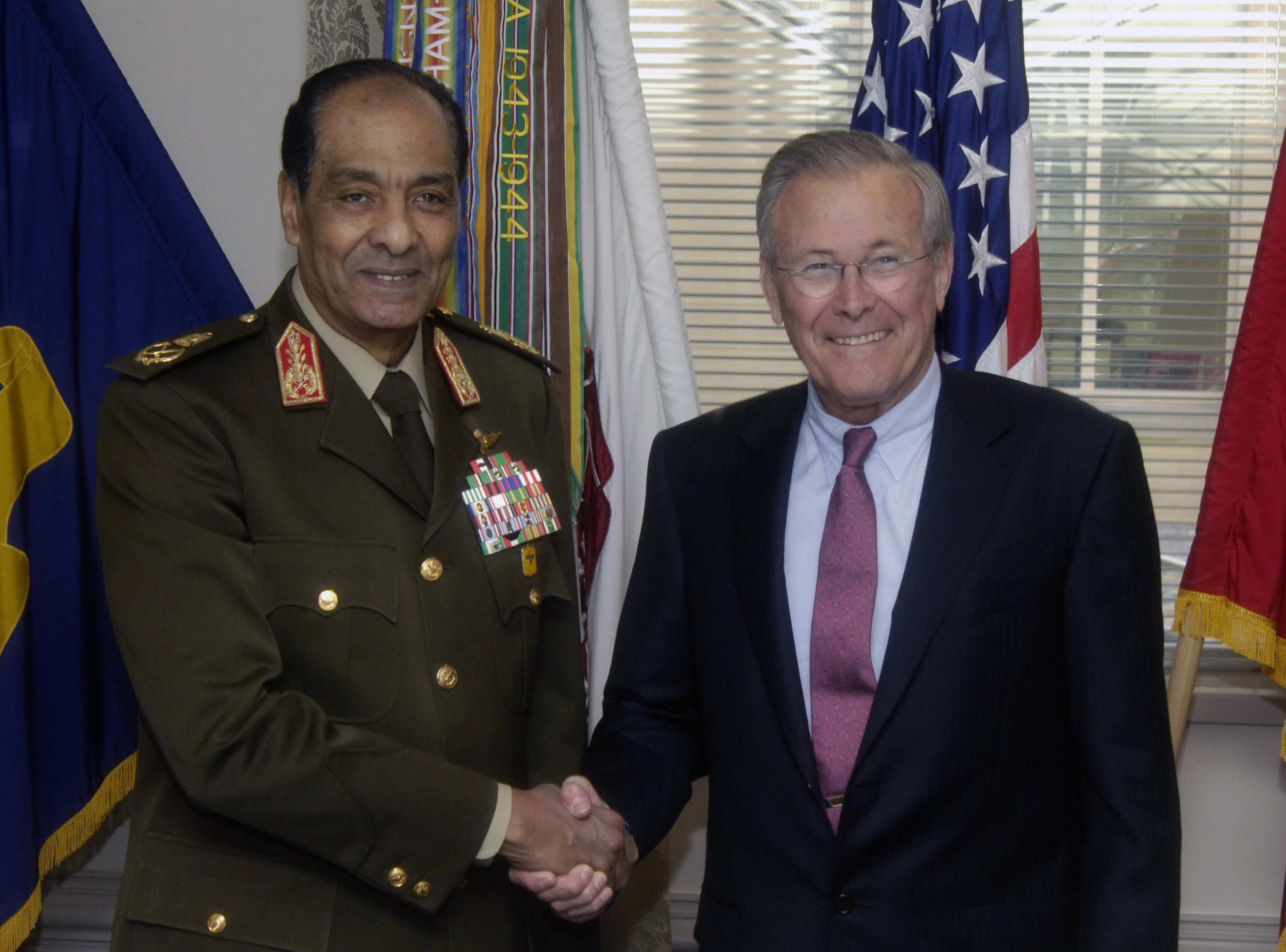 The Honorable Donald H. Rumsfeld, right, U.S. Secretary of Defense, poses for a photograph with Egyptian Minister of Defense Field Marshal Mohamed Hussein Tantawi, during the minister's visit at the Pentagon, Washington, D.C., on March 7, 2006. (DoD photo by Petty Officer 1st Class Chad J. McNeeley)